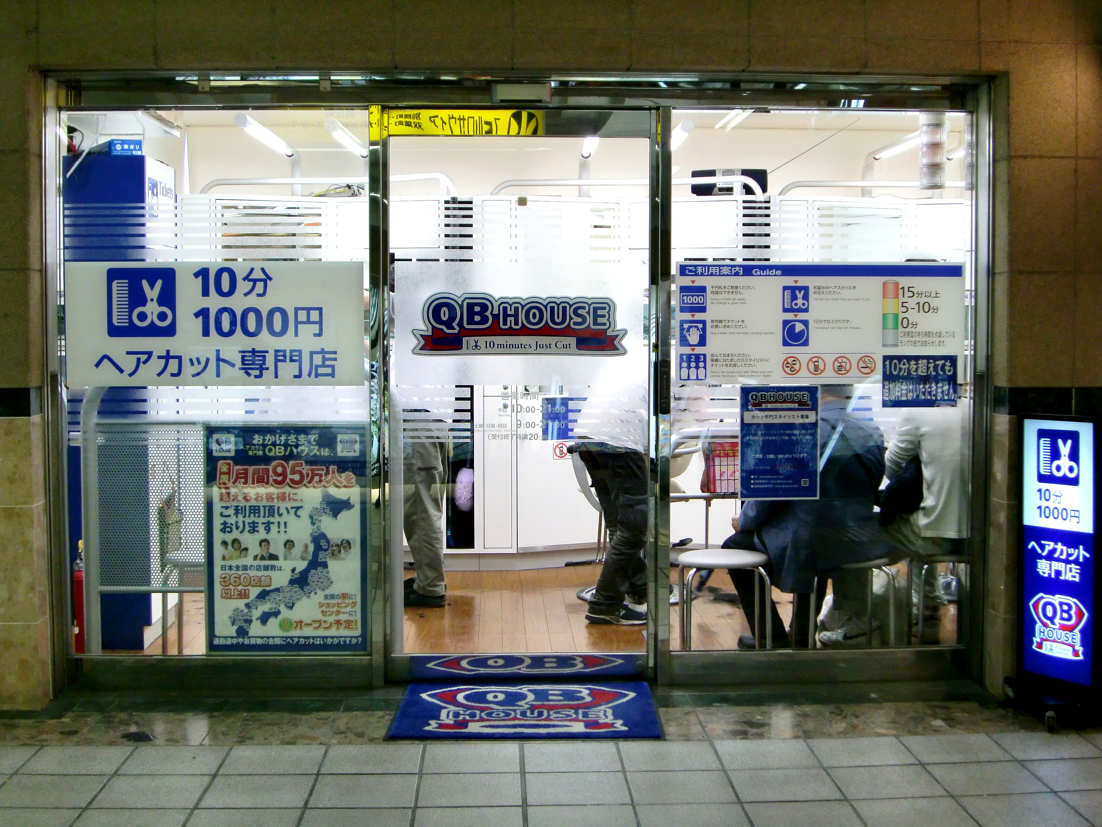 QB HOUSE,1-5 Eidaicho Ibaraki-City Osaka JAPAN.